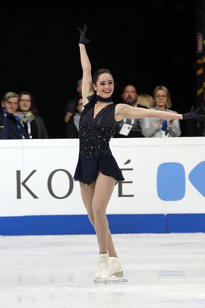 Kaetlyn Osmond skates her short program at the 2017 World Championships in Helsinki, Finland